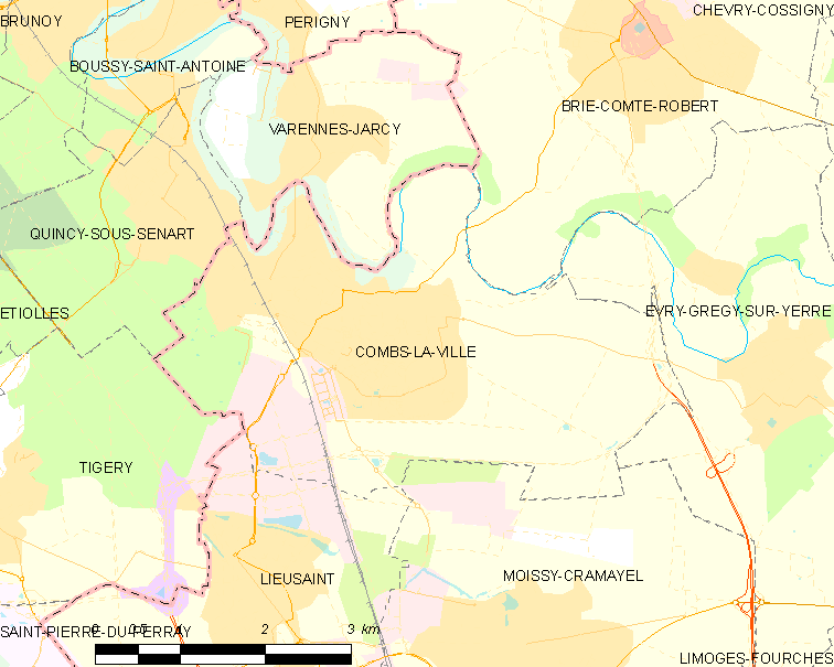 Map of French municipality Combs-la-Ville